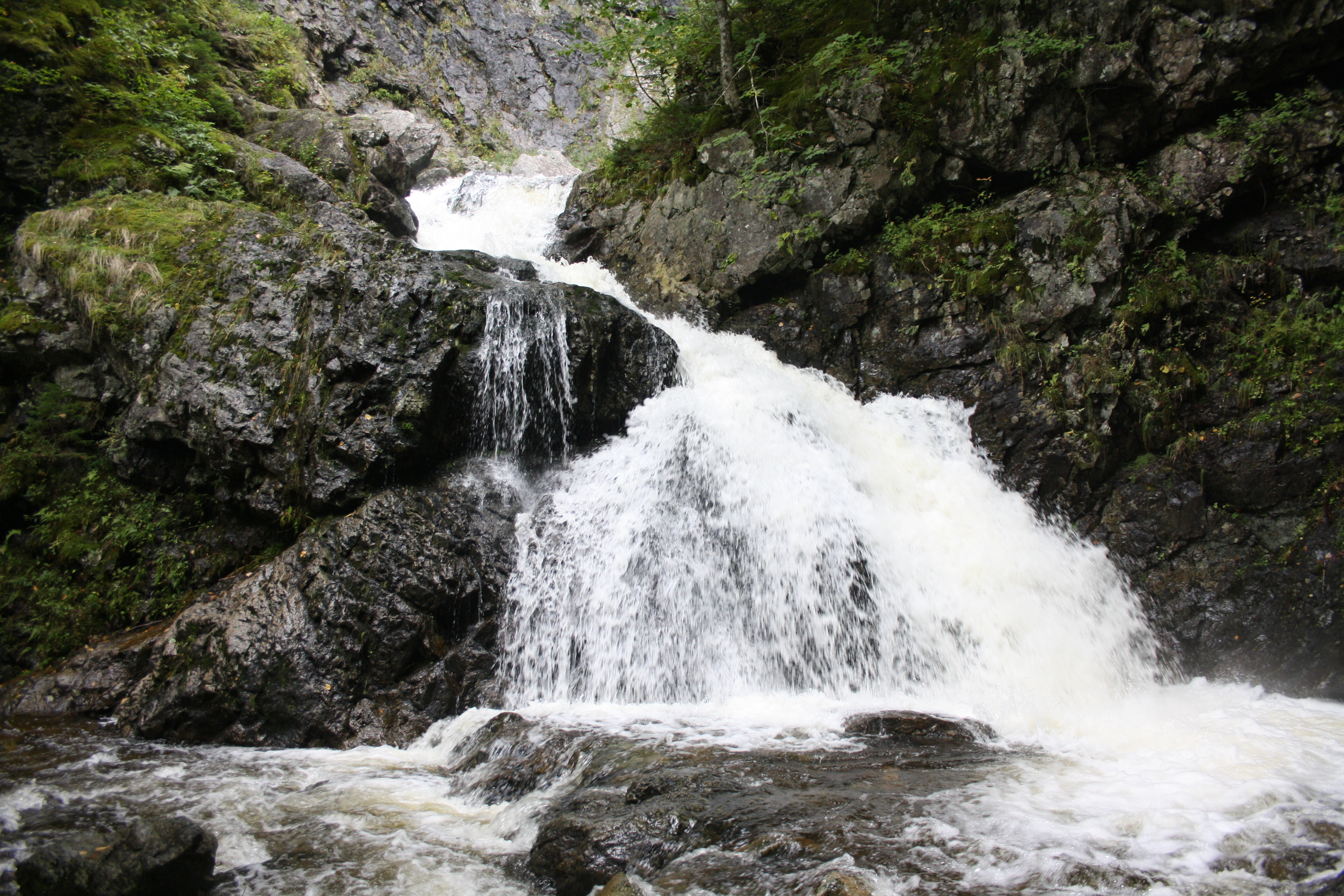 Lower portion of Uisage Ban Falls at Uisage Ban Falls Provincial Park, near Baddeck, Nova Scotia.